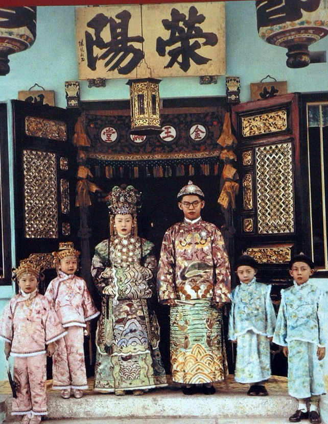 A photograph of Peranakan wedding couple from a museum in Singapore. Taken at the wedding of Chung Guat Hooi (daughter of Capitan Chung Thye Phin) and Khoo Soo Beow (son of Khoo Heng Pan) May 1941, at 29 Church Steet, Penang, built by Capitan Chung Keng Quee and now known as the Pinang Peranakan Mansion. On the right are the bride's brothers, Chung Kok Chuan and Chung Kok Tong.